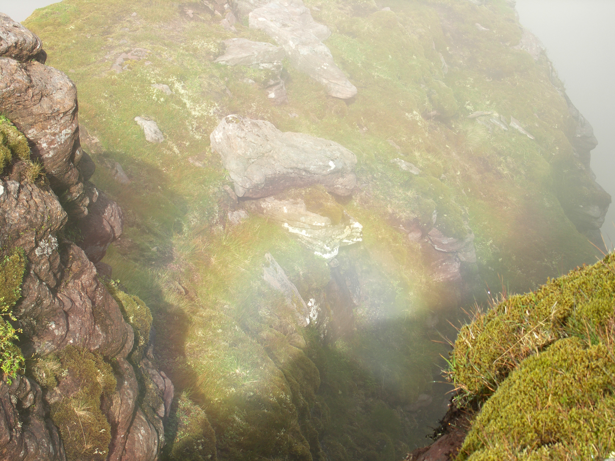 Description: Glory encountered during a hike in An Teallach, Scotland Date: 2005-08 Author: AndiW 13:01:40, 2005-09-04 (UTC) Permission: picture taken by myself